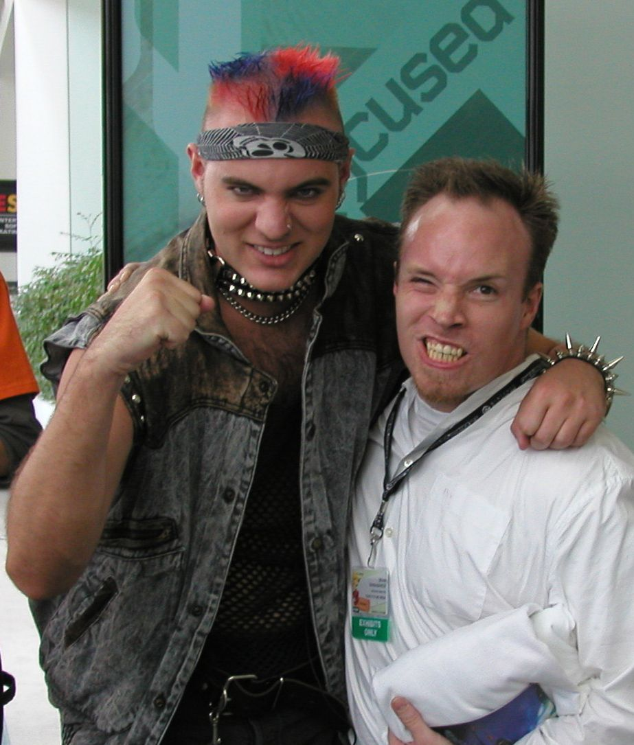 Sean Patrick Reiley, better known as Seanbaby (left), with fan Brian Wanamaker. Taken at E3 in 2003.